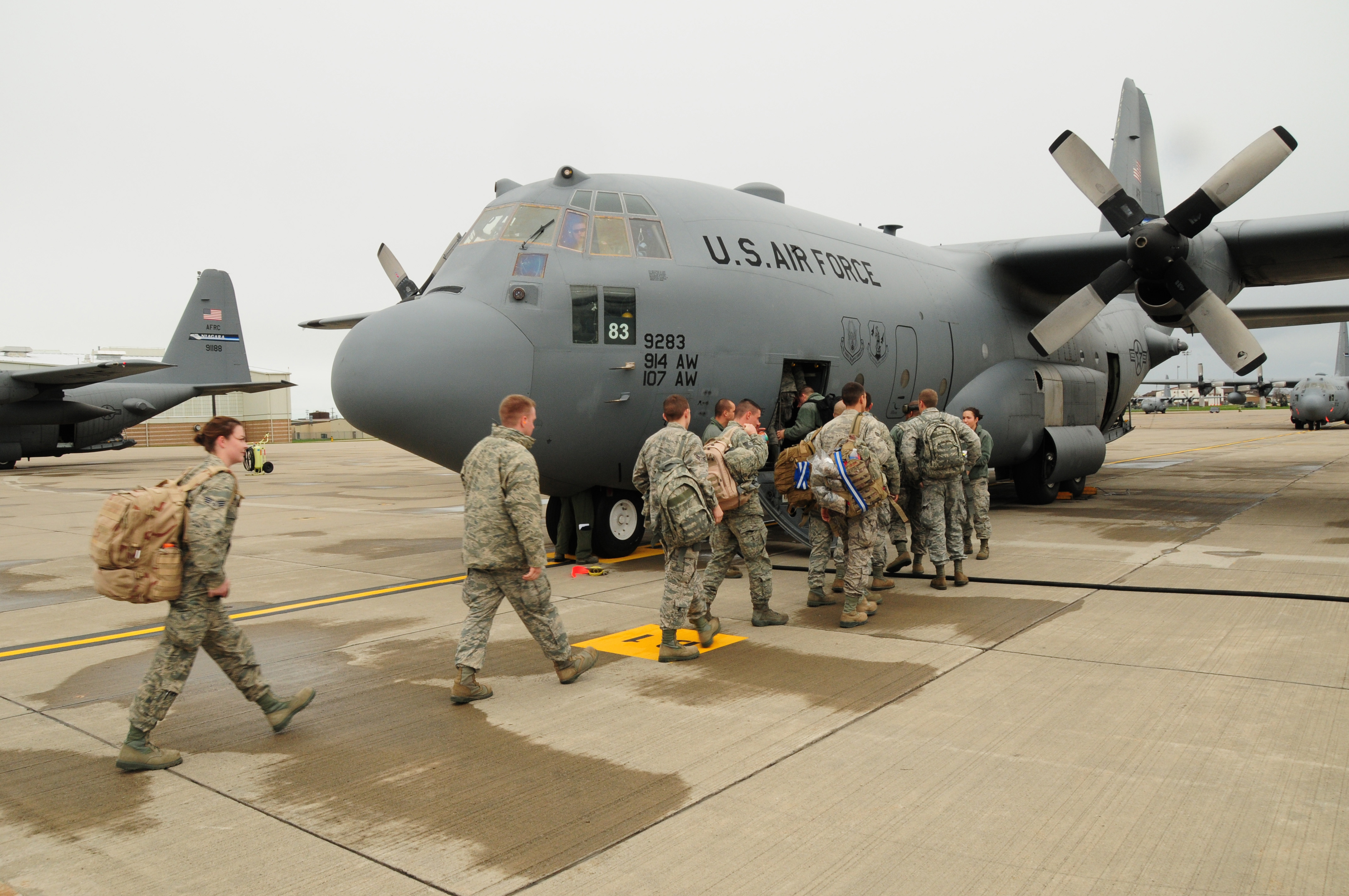 75 members of the 107th Airlift Wing have deployed downstate to aid in Hurricane Sandy recovery efforts. Oct. 30, 2012 (National Guard Photo/Senior Master Sgt. Ray Lloyd)